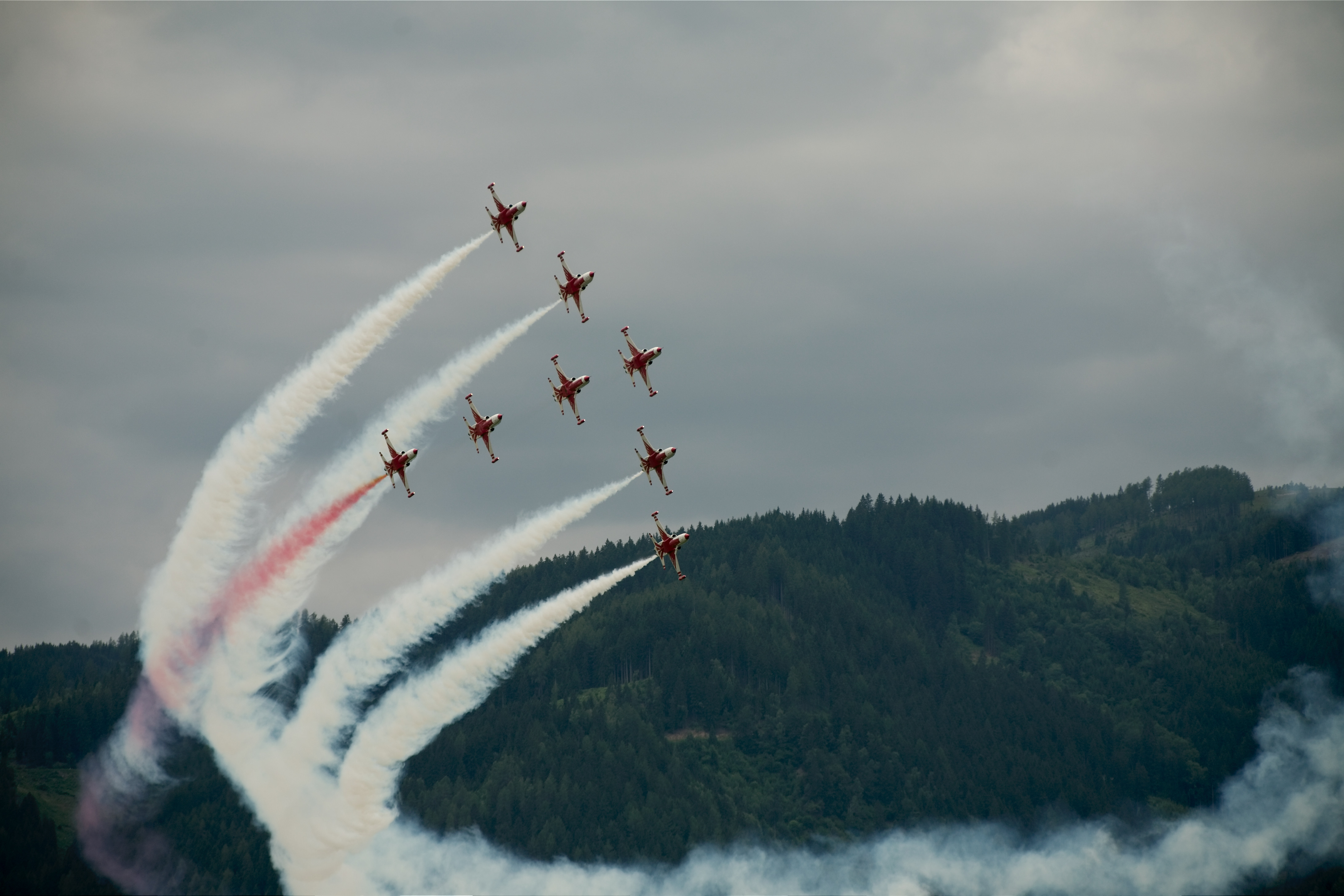 Turkish Stars at Airpower11